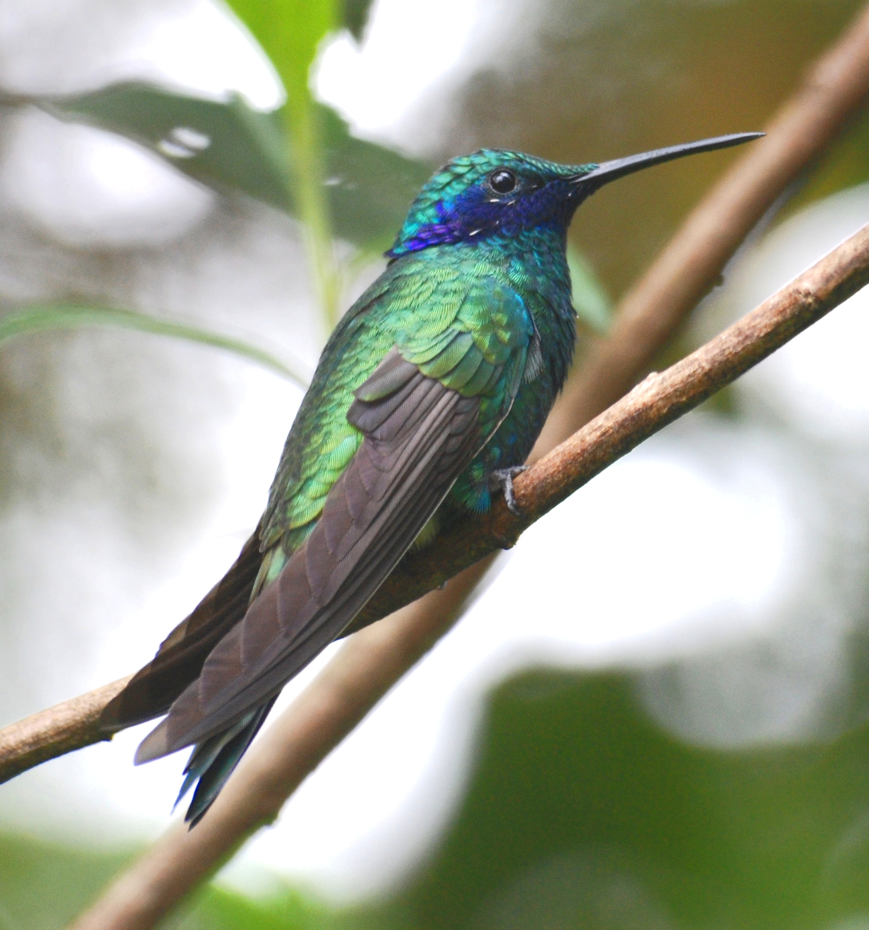 Sparkling Violet-ear (Colibri coruscans) at the Bellavista Cloud Forest Reserve.